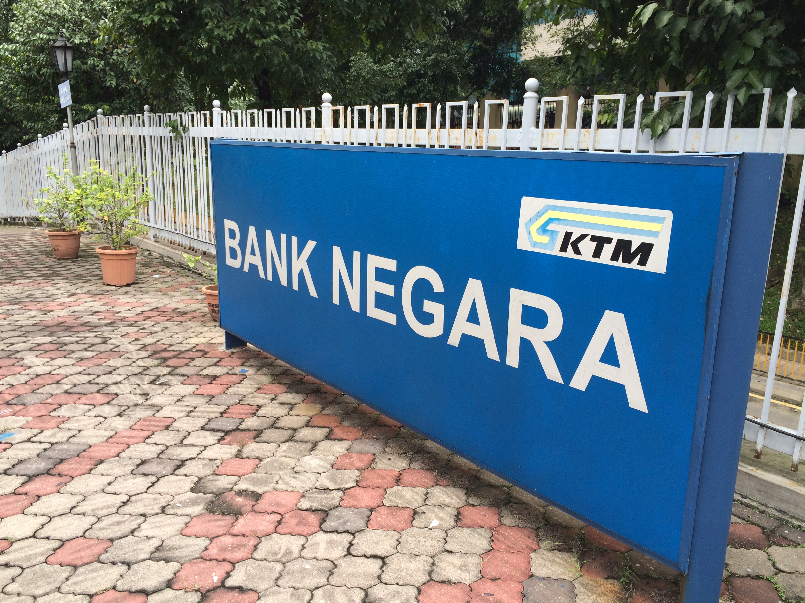 Bank Negara Komuter station